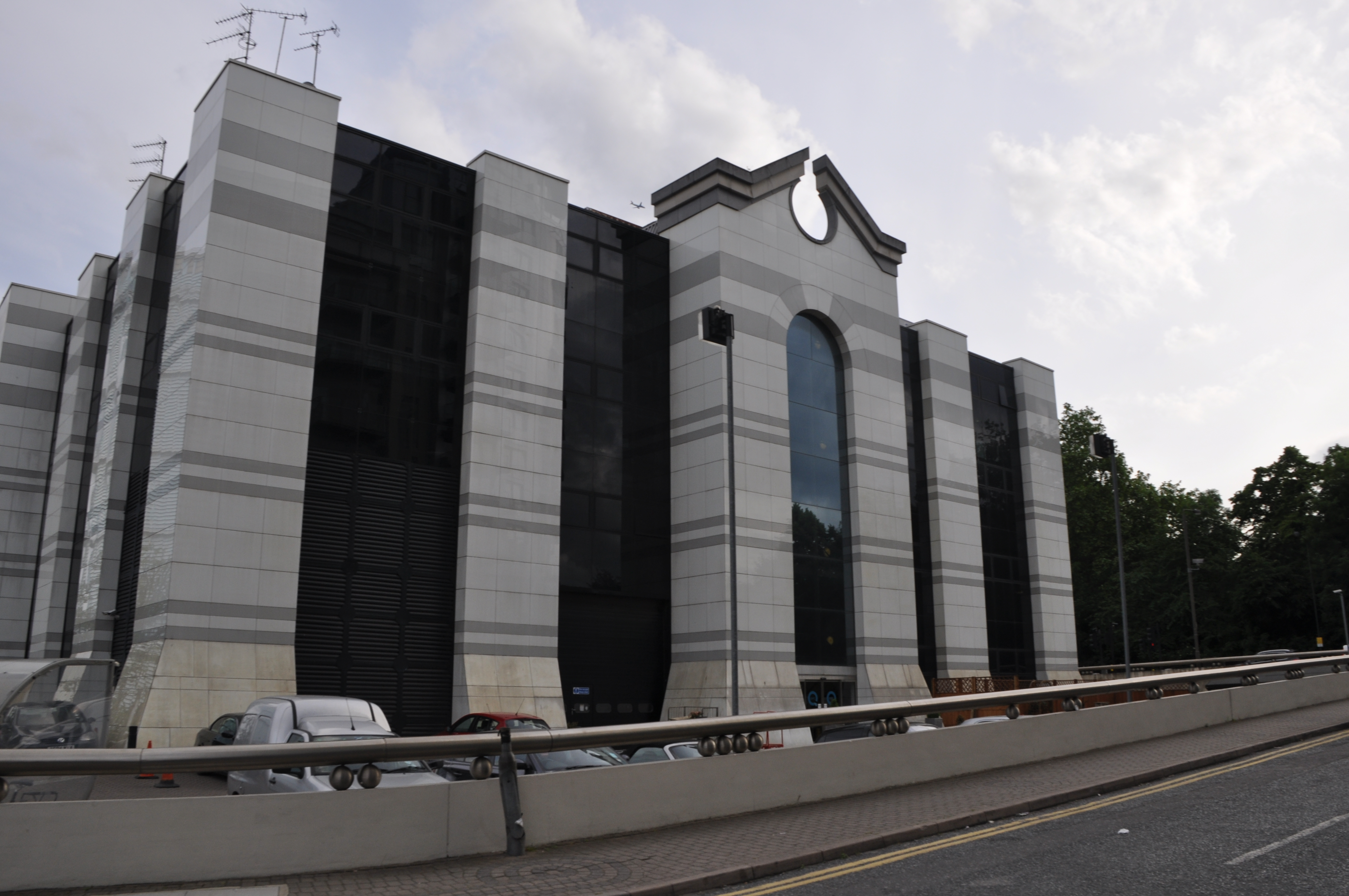 Marco Polo House building, London